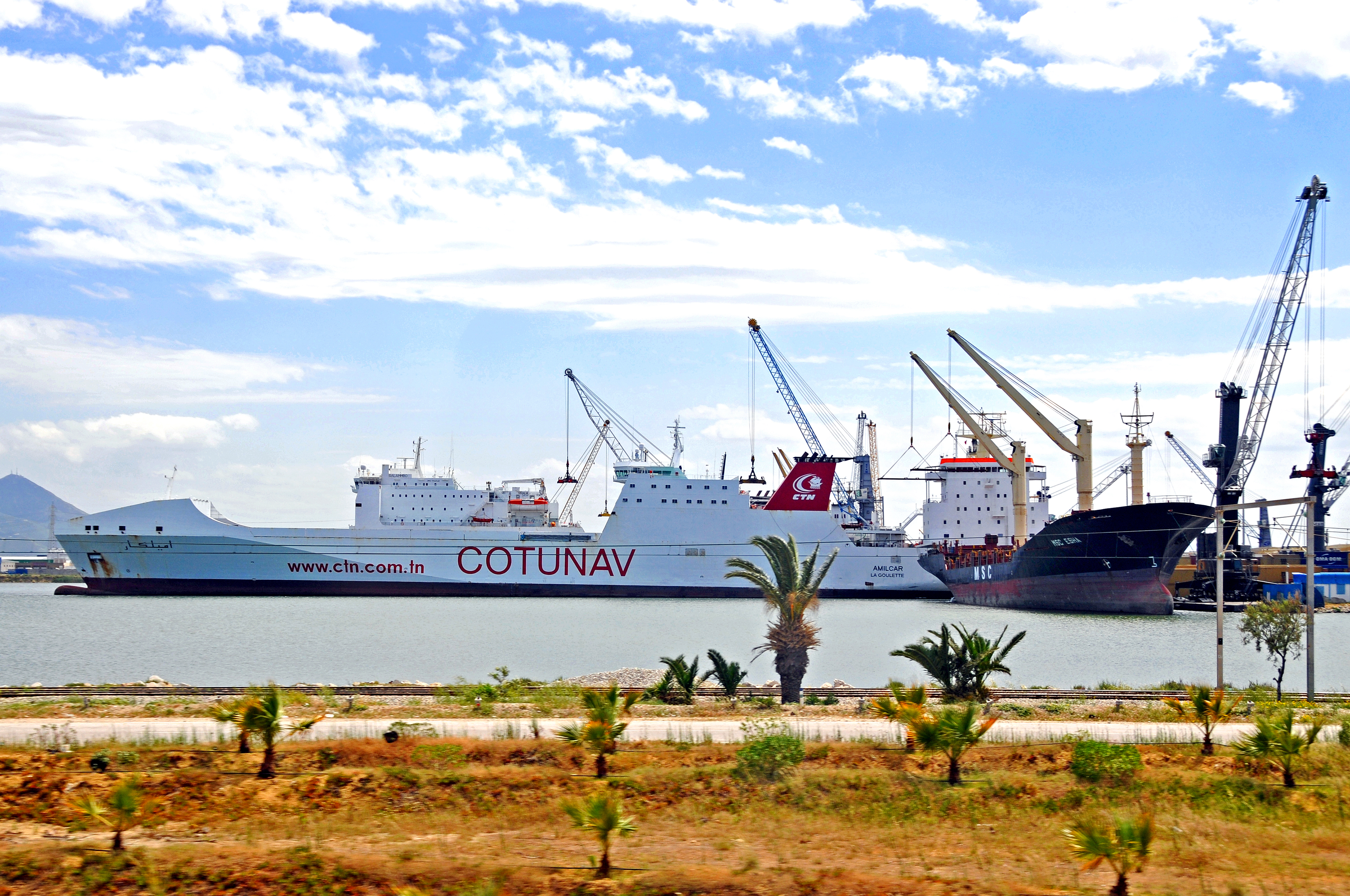 The port of Tunis, the ship M/F Amilcar was built in 2000, owned by the CoTuNav company., it is a cargo ship. The ship on the right is the MSC Esha a container ship built in 1993. M/F Amilcar Route: Marseille to Rades Building year: 2000 Building yard: Flensburger Schiffsbau Ges., Flensburg, Germany Owner: CoTuNav Operator: CoTuNav (Tunisia ferries) Length: 193,0 m Breadth: 26,0 m Draft: 7,4 m GT: 22.900 Machinery: MAK 9M43 Speed: 21,5 kn. Number of passengers: 12 Number of beds: 12 Flag: Tunisia MSC Esha Type: Container Ship Built: 1993 Length: 147m Beam: 23m Gross Tonnage: 10396 Dead Weight: 12854 Tons Max Speed: 12.9 Flag: Panama Bus Shot...